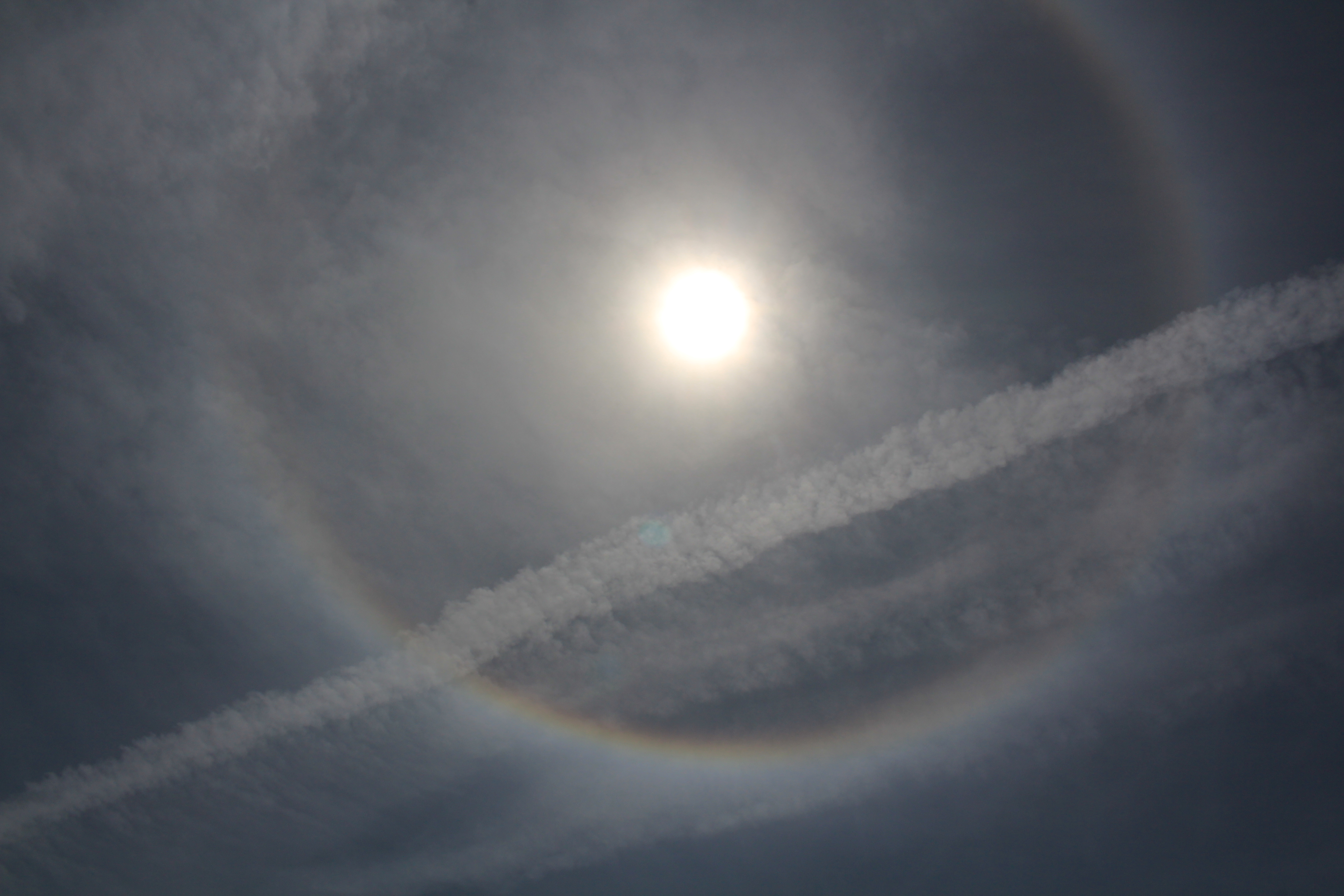 22° halo (Halo Solar) in Mount Dainichi, Gifu prefecture, Japan.